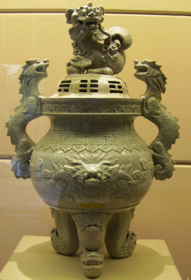 An incense burner manufactured by artists from Bát Tràng village (Northern Vietnam) in 1736.